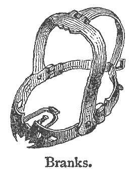 Illustration from 1908 Chambers's Twentieth Century Dictionary. Branks, n. a scold's bridle, having a hinged iron framework to enclose the head and a bit or gag to fit into the mouth and compress the tongue.